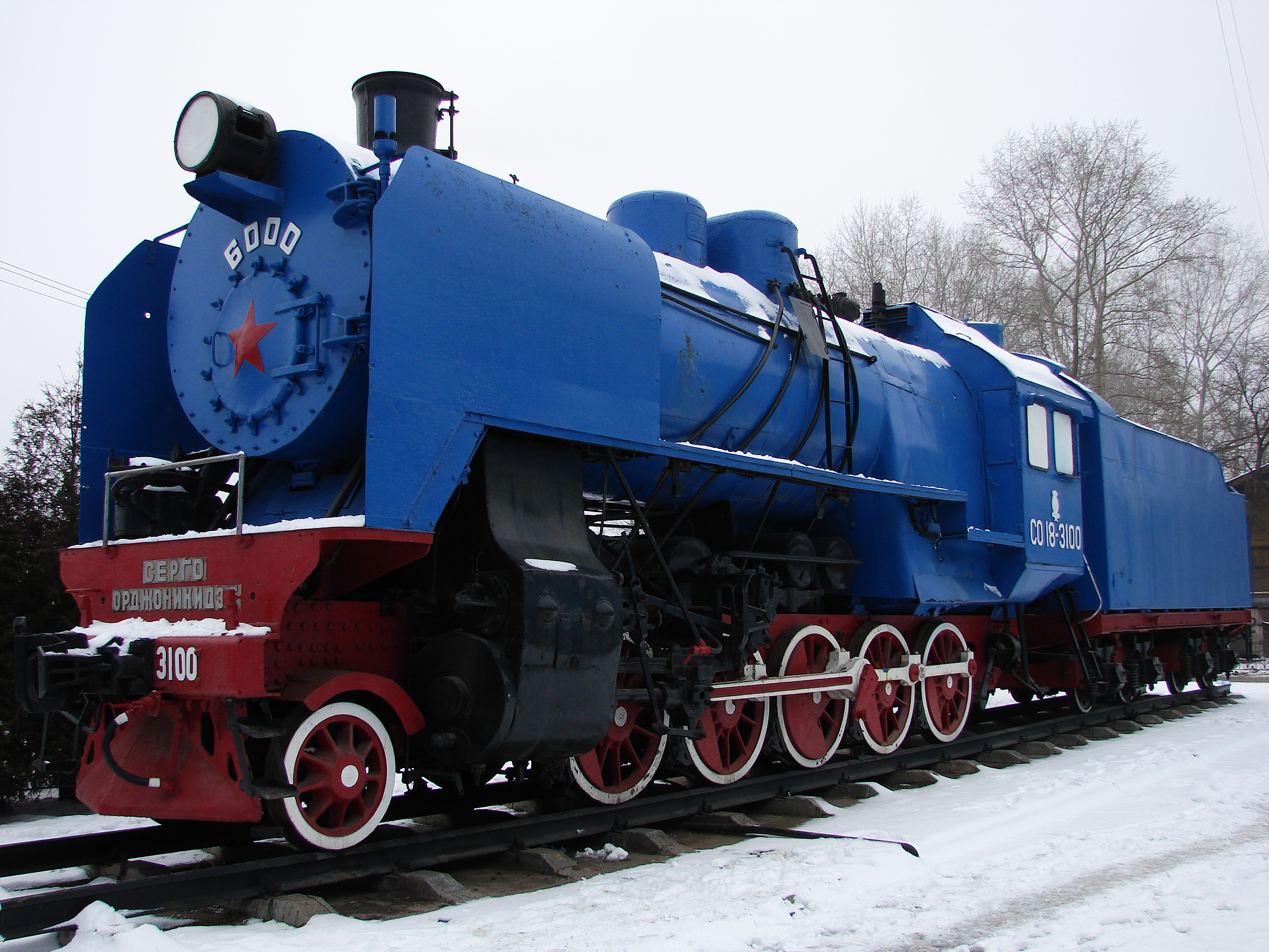 Russia, Vologda locomotive depot, Steam locomotive SO